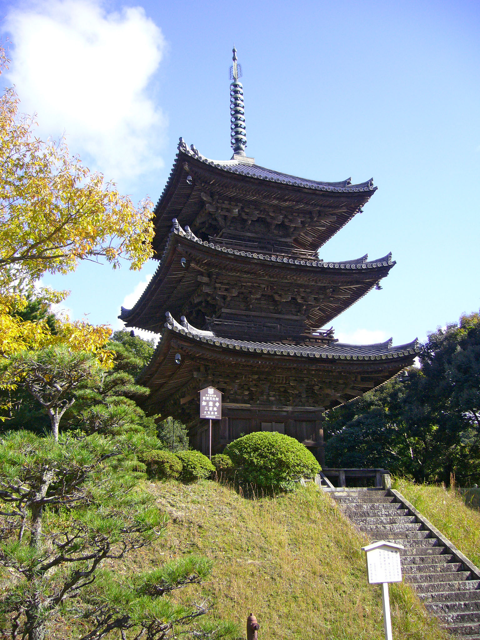 Nyoi-ji's Pagoda is Japan's Important Cultural Property in Kobe, Hyogo prefecture, Japan